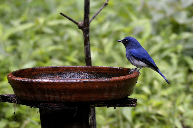 White-bellied blue flycatcher male in a bird bath at Jungle Lodges resorts, Ganeshgudi, Karnataka, India